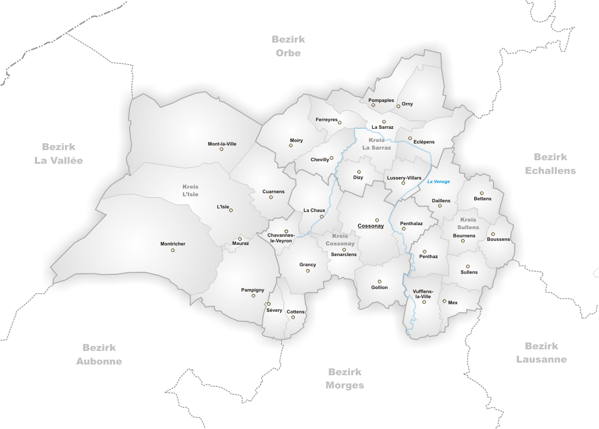 Municipalities of District Cossonay until 2007